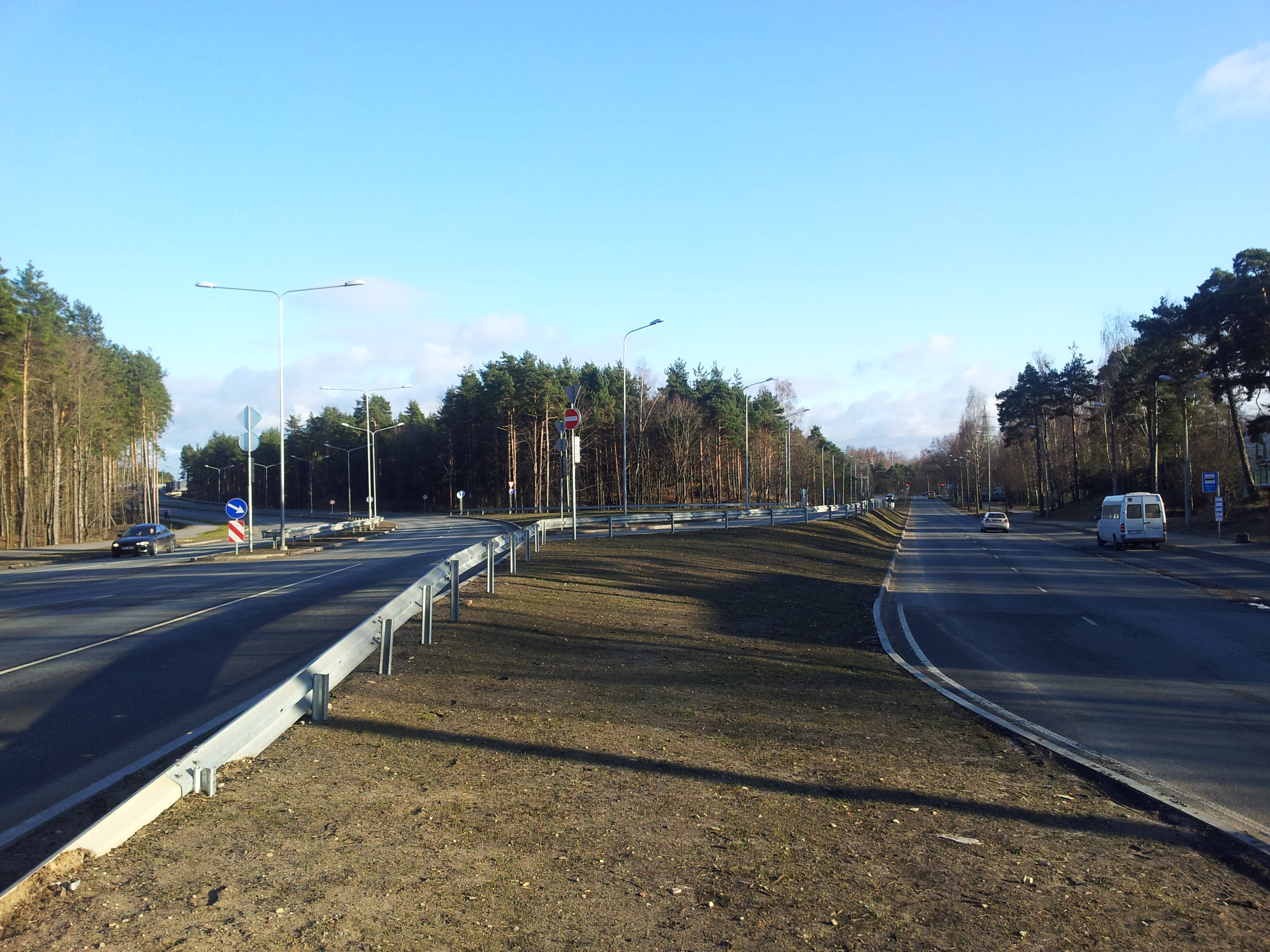 Viestura prospekta and Gustava Zemgala gatve junction, RīgaLatviešu: Viestura prospekta (P1) un Gustava Zemgala gatves satiksmes mezgls